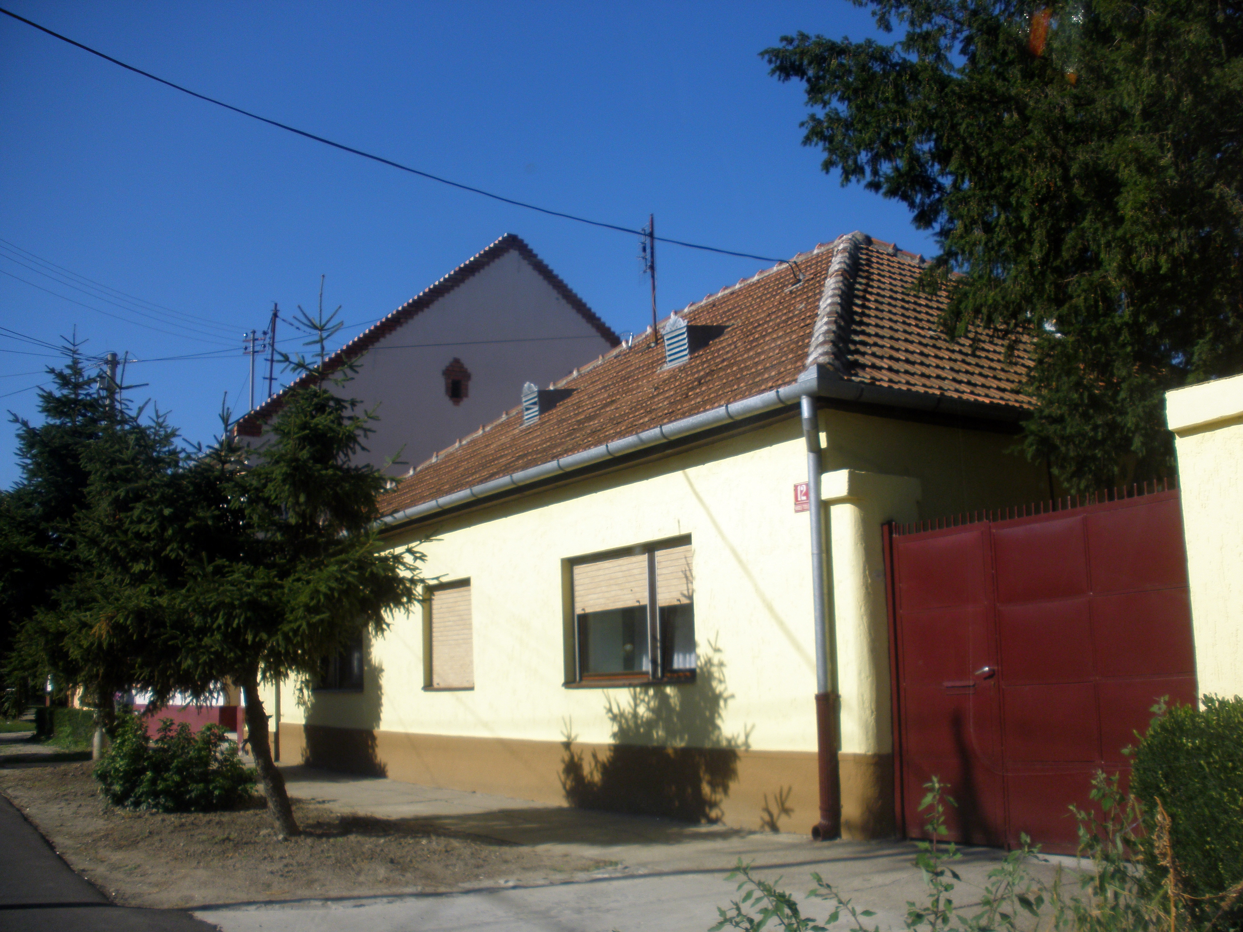 Native house of priest and msgr. Jenő Tietze